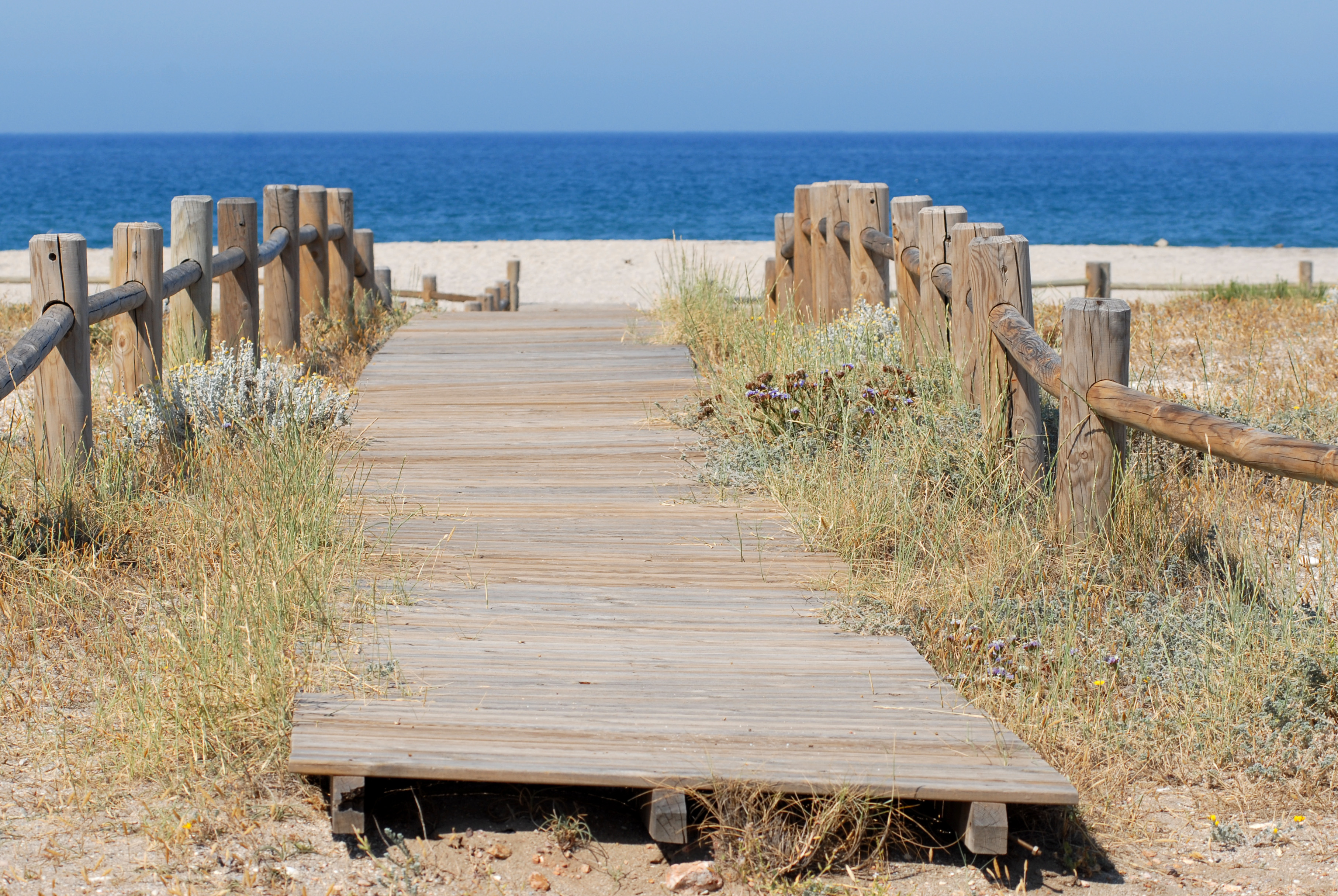 Beach in Cabo de Gata